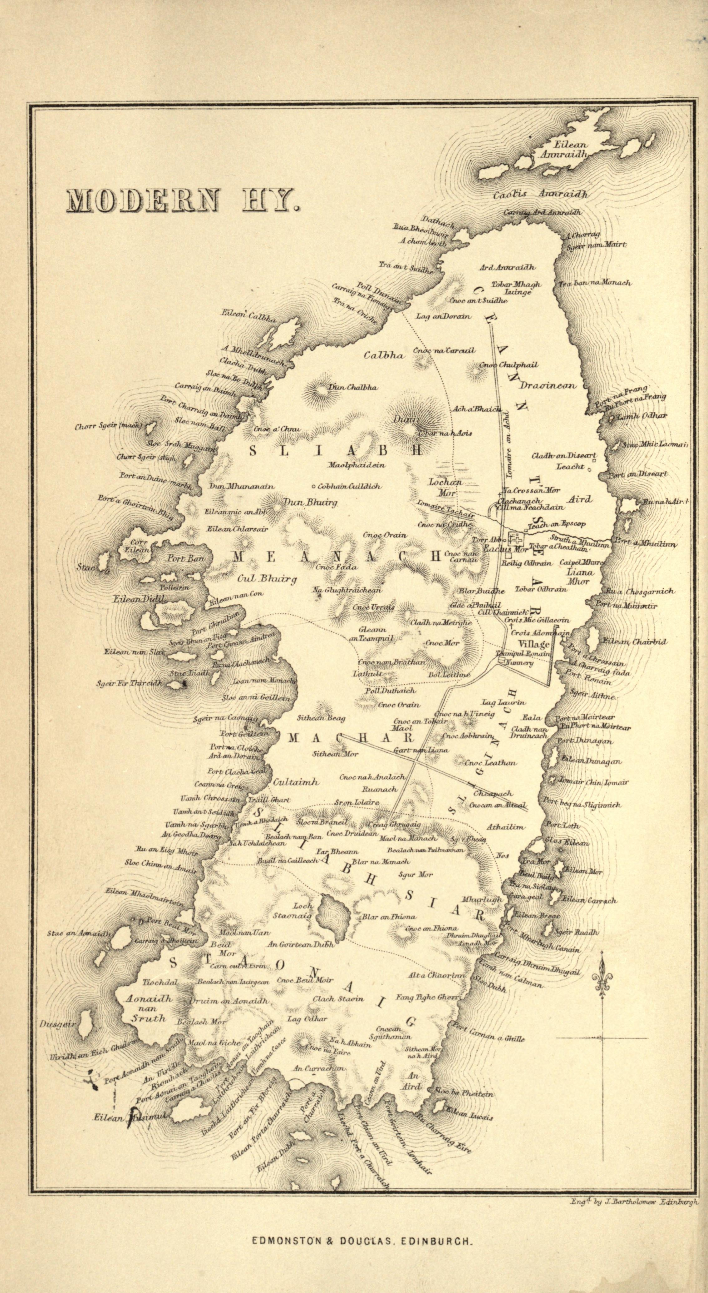 map of Iona Island, Inner Hebrides, Scotland